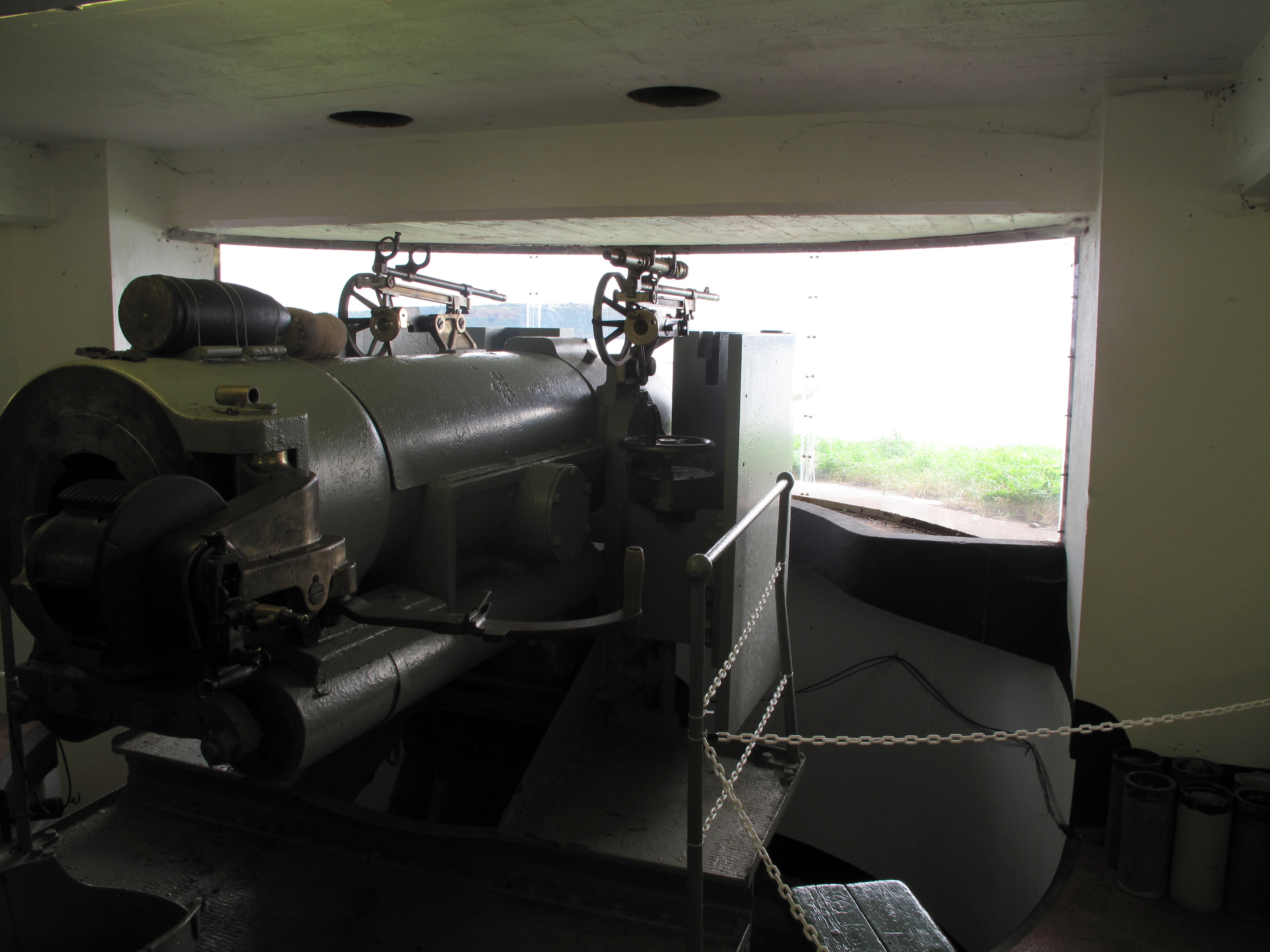 Spike Island, County Cork. Six inch gun which is directed towards mouth of Cork Harbour.